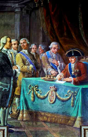 "Charles III signs the Free Trade Decree with America in 1778", 18th century work of Spanish painter Pere Pau Muntanya. Exhibited at the Government Delegation in Catalonia, Barcelona.